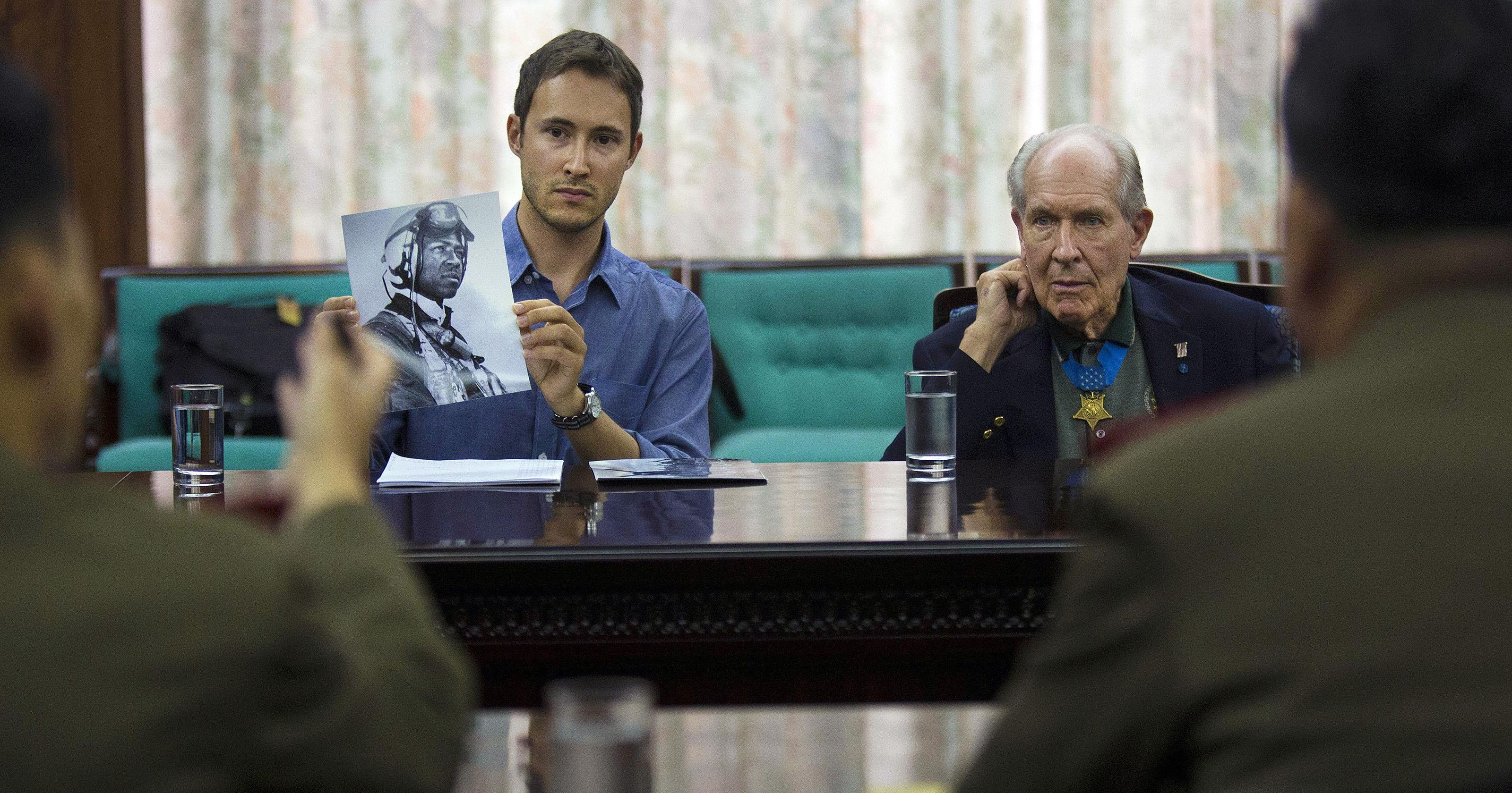 Author Adam Makos and Dick Bonelli in talk with North Korean officials for the handing over of a Korean War pilot Jesse Brown. Brown was the first African-American naval aviator. During the Korean war, he was Hudner’s wingman during sorties they flew off the deck of the USS Leyte aircraft carrier. The two flew single-engine Corsair (F4U) fighters to provide critical air support for Marines during the Battle of Chosin Reservoir - a pivotal moment in the war.